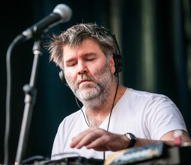 James Murphy (of LCD Soundsystem) DJ'ing at the CBGB Festival 2013 in Times Square, New York.